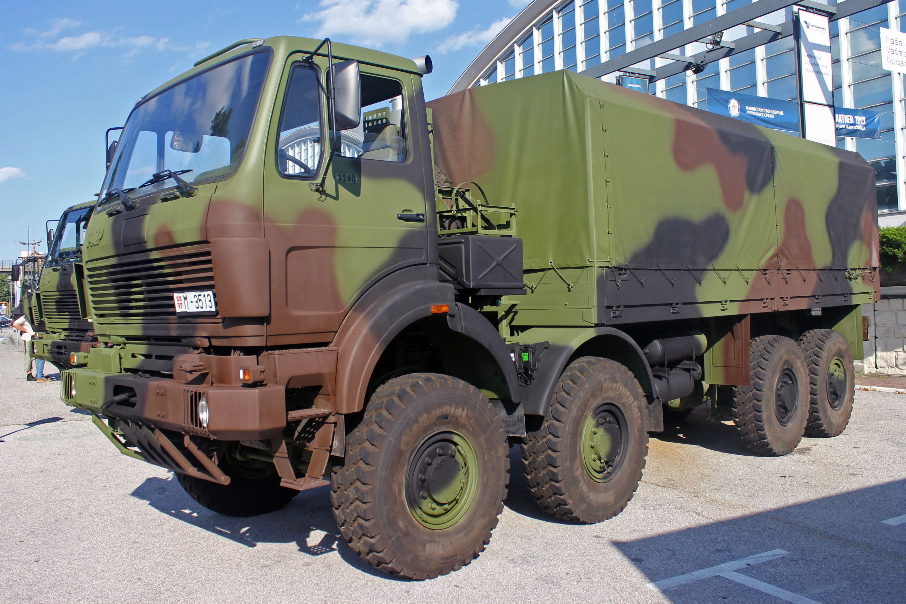 New FAP 3240 BS/AV 8x8 heavy military truck from first series of Serbian Army on display at "Partner 2019" military fair from first series.